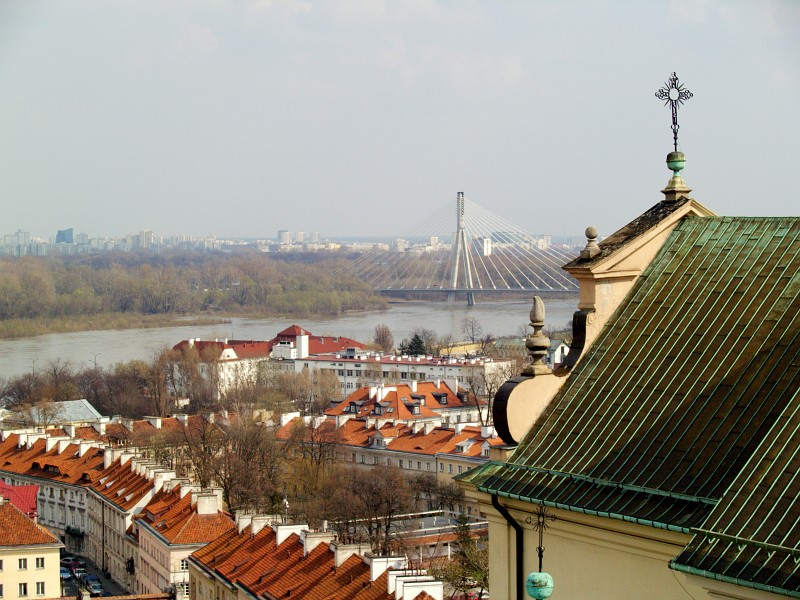 View from St. Anne's Church towards Świętokrzyski Bridge, looking over Mariensztat. Warsaw, Poland.